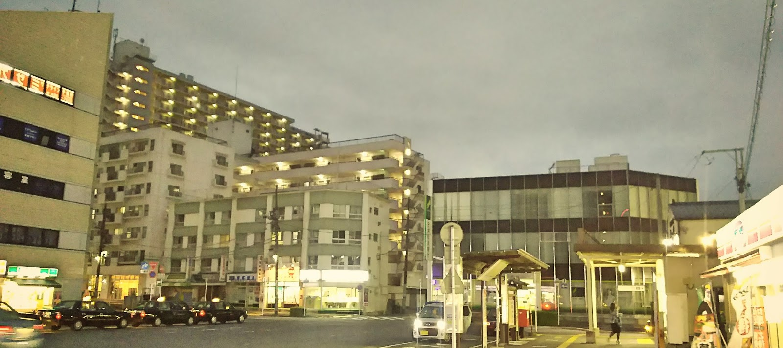 Keisei Sakura Sta. south side